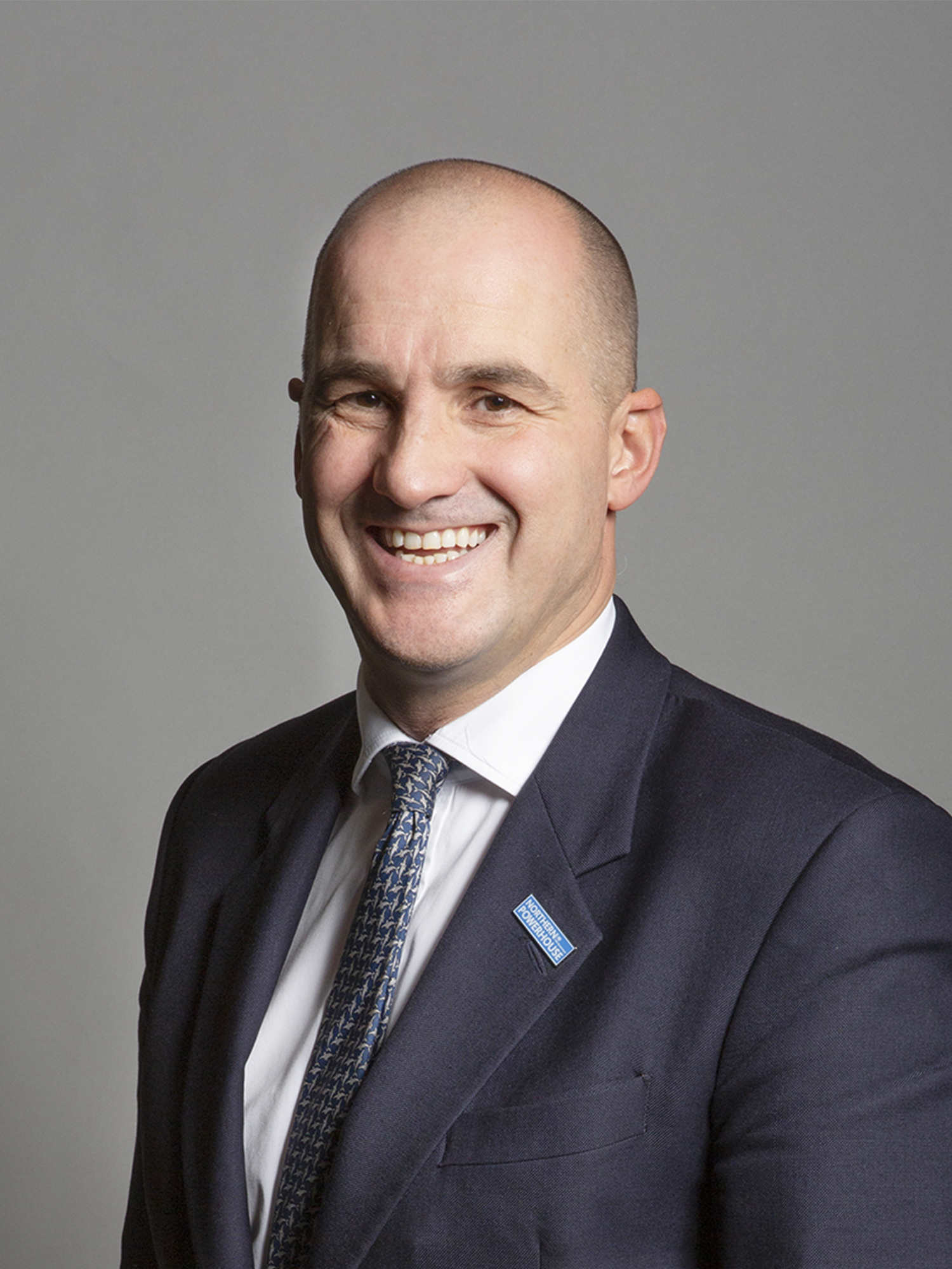 Official portrait of Rt Hon Jake Berry MP 3×4 portrait of Jake Berry